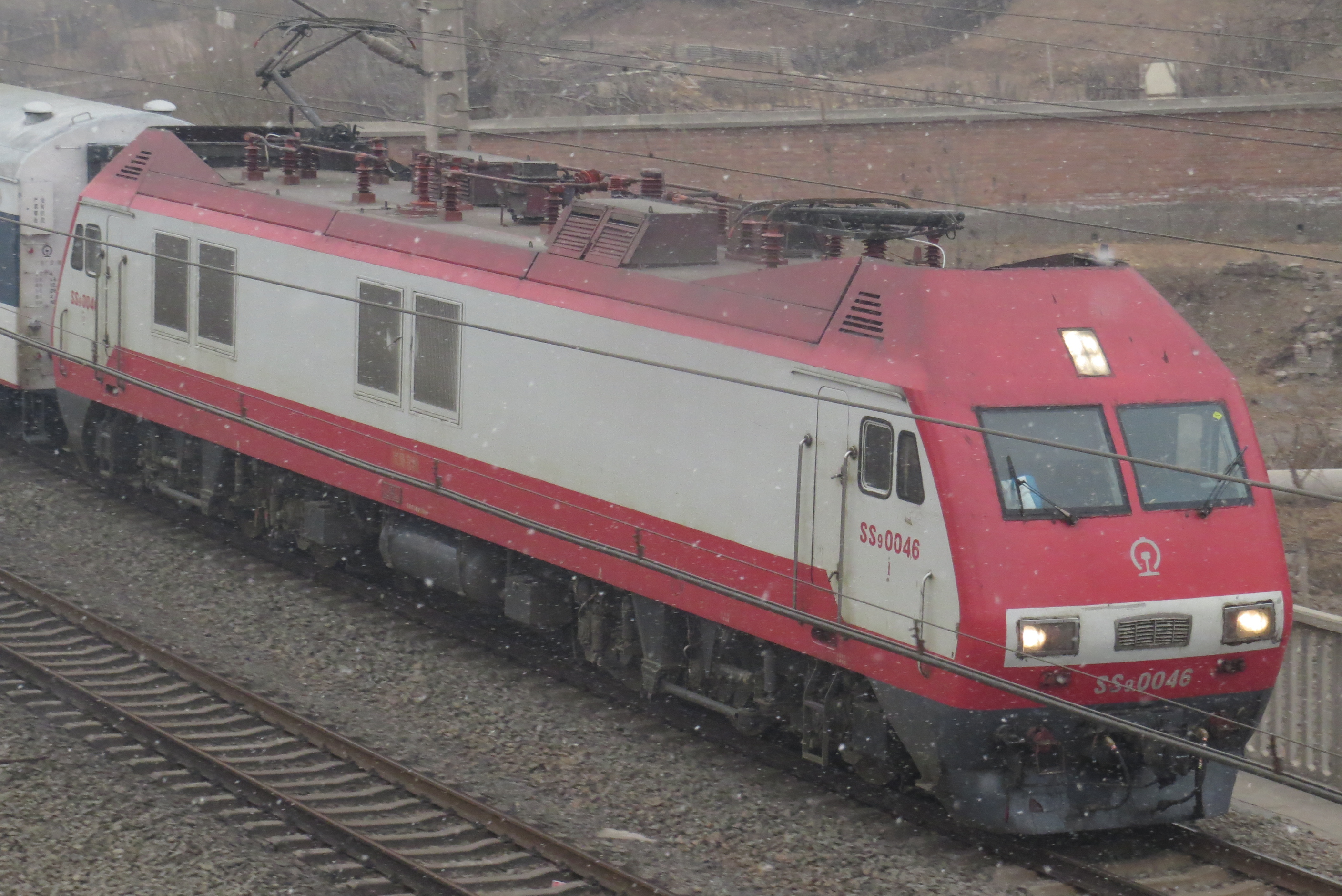 Kung Hei Fat Choy! Z98 arriving from Hung Hom on the first day of lunar new year in snow.